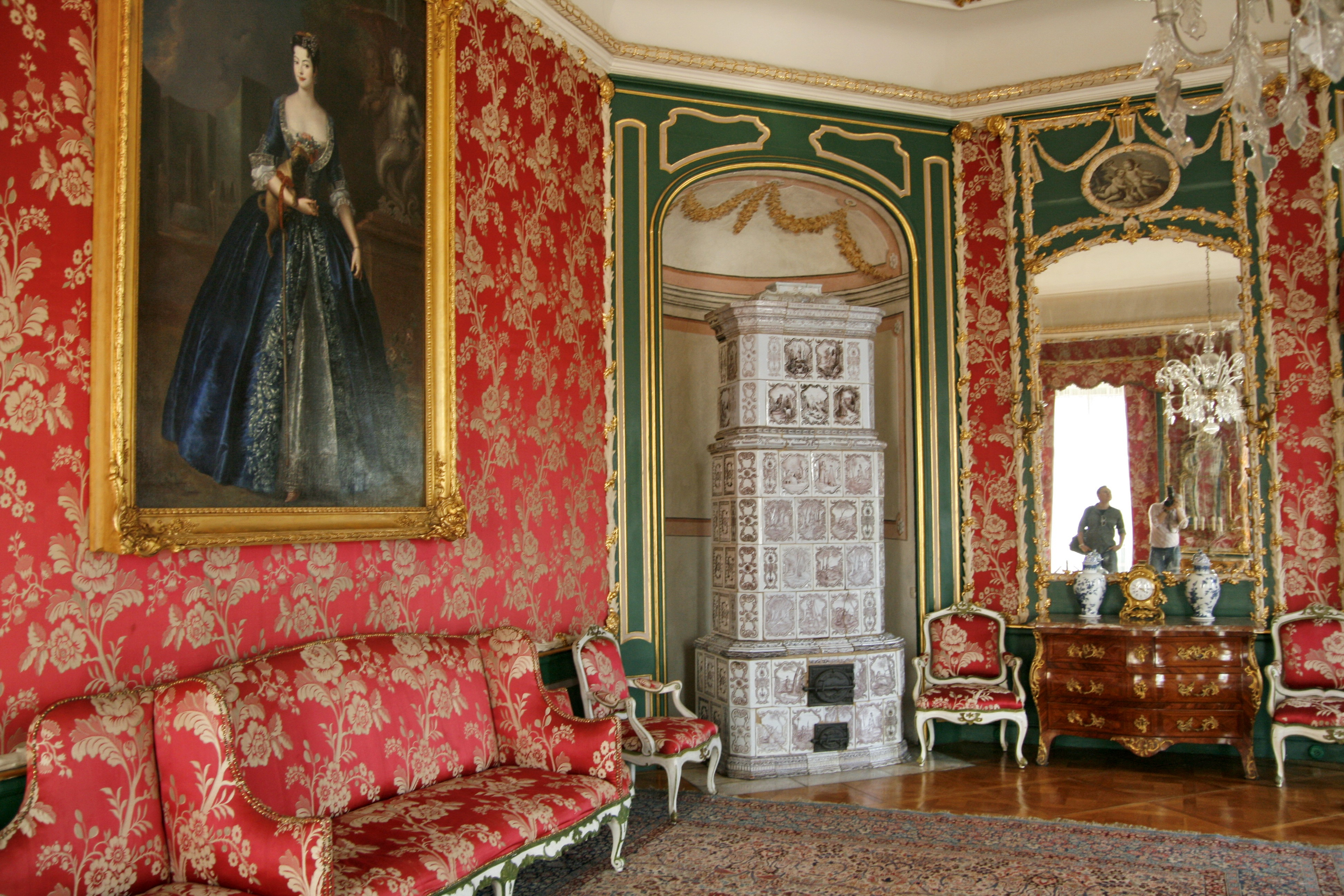 Nieborów Palace - The Red Drawing-room